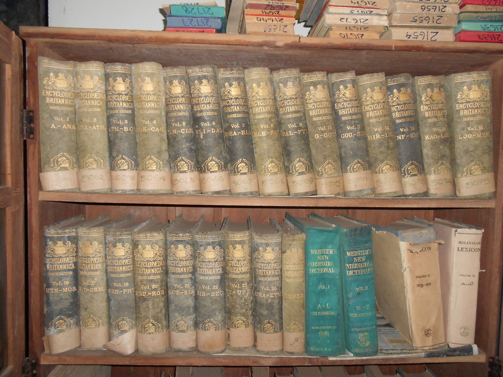 Malayalam wiki sibiram at Karunagapally Lalaji Library